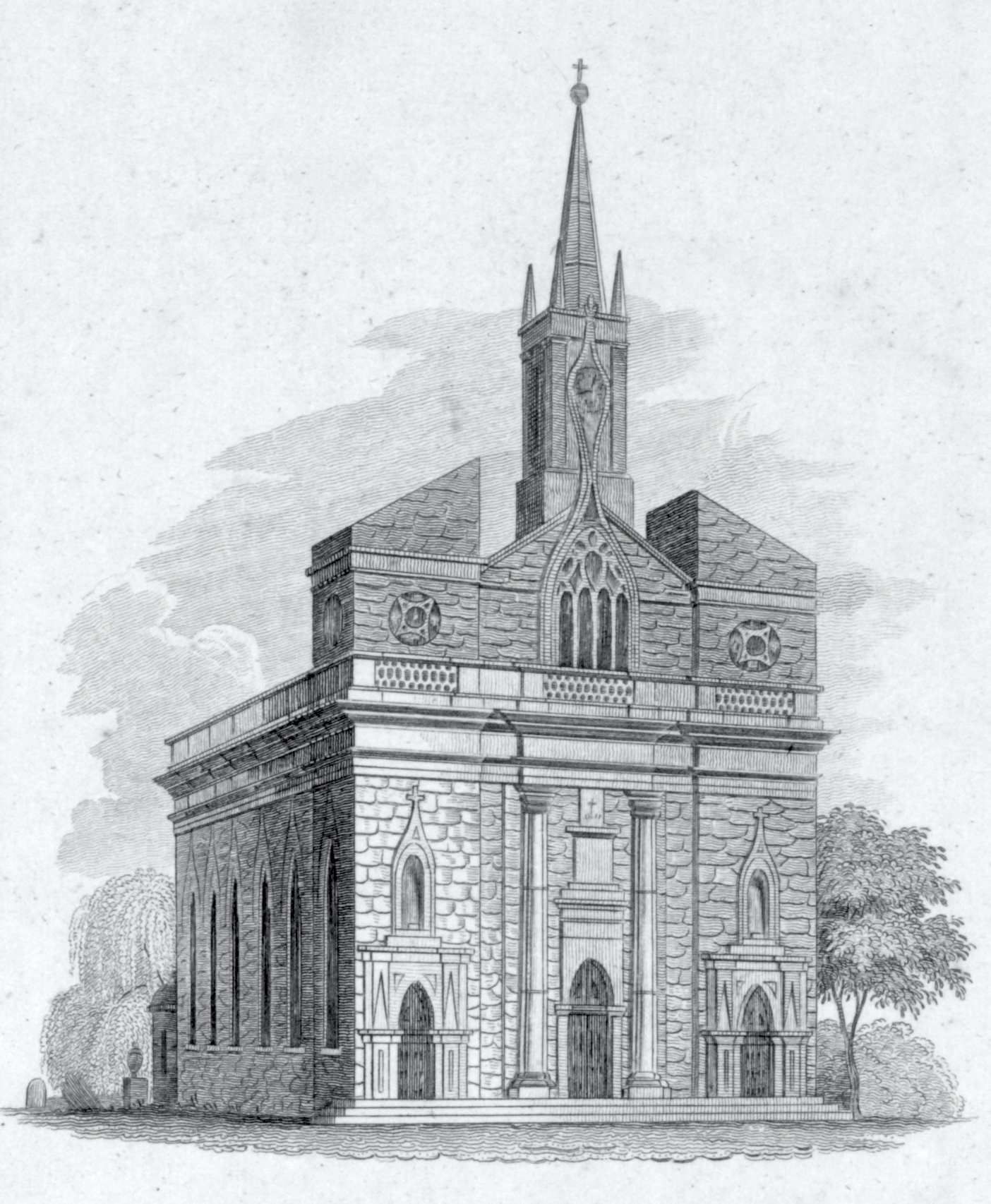 St. Patrick's (Old) Cathedral, Mott Street, New York City